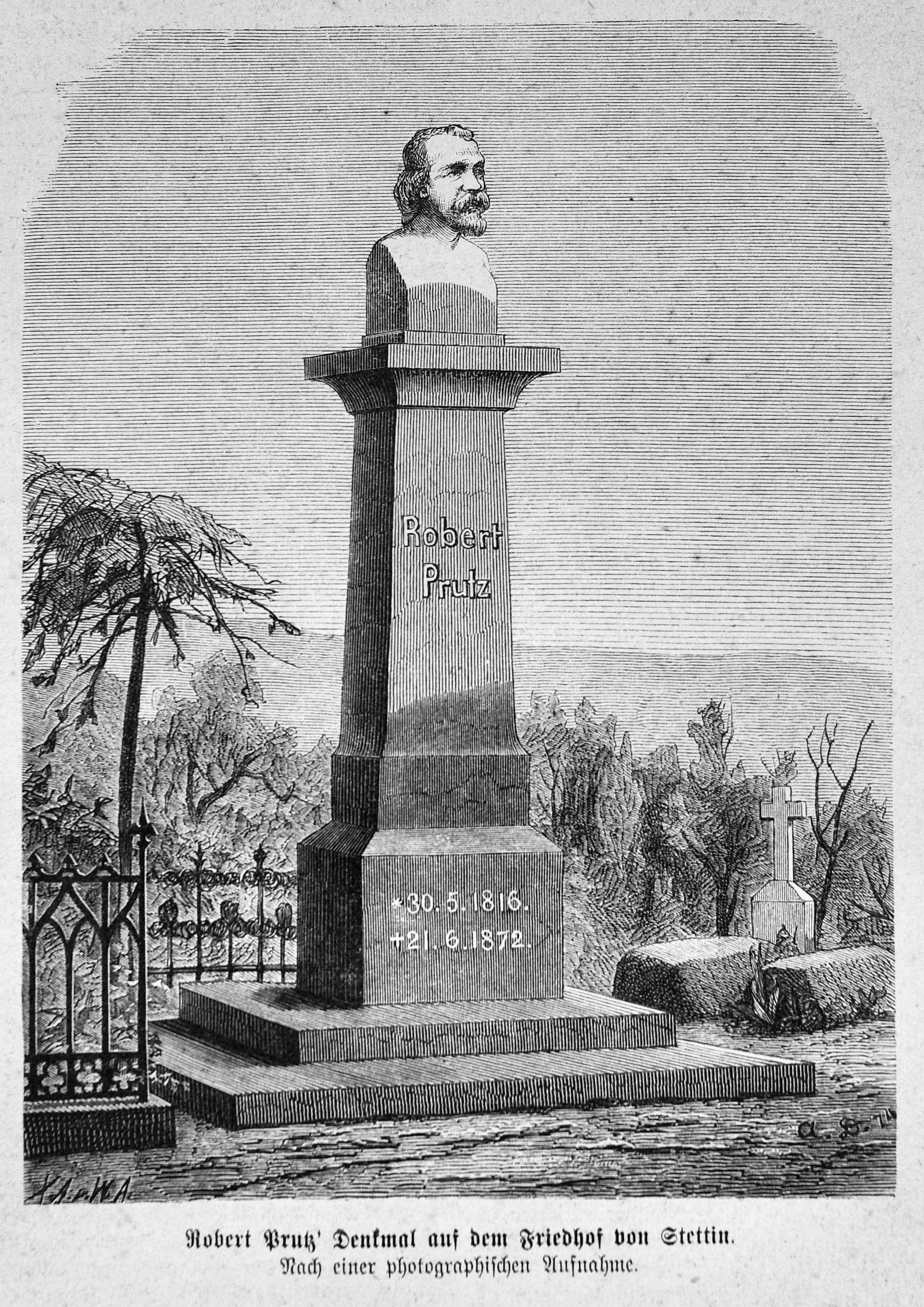 caption: "Robert Prutz’ Denkmal auf dem Friedhof von Stettin. Nach einer photographischen Aufnahme."